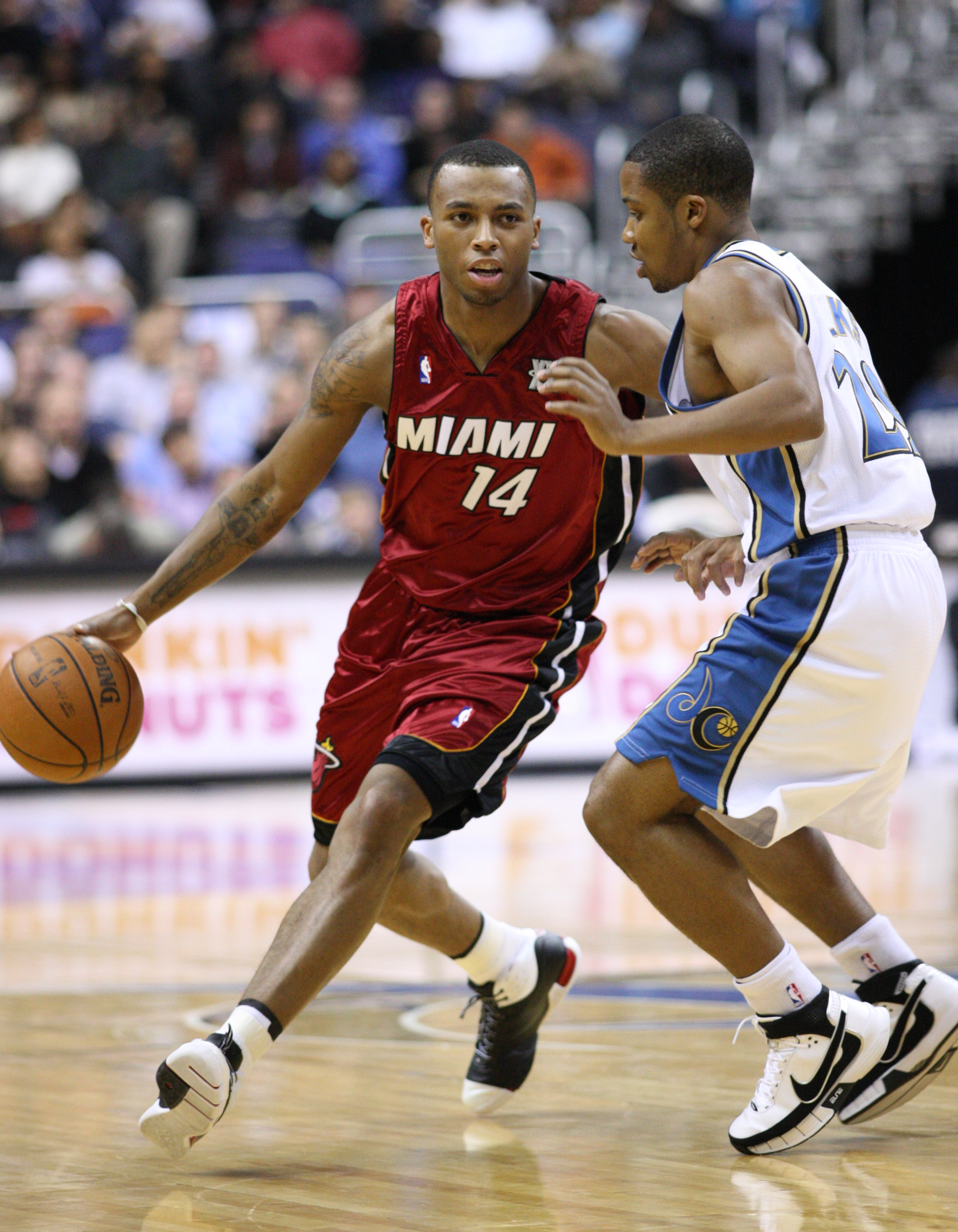 Daequan Cook playing with the Miami Heat